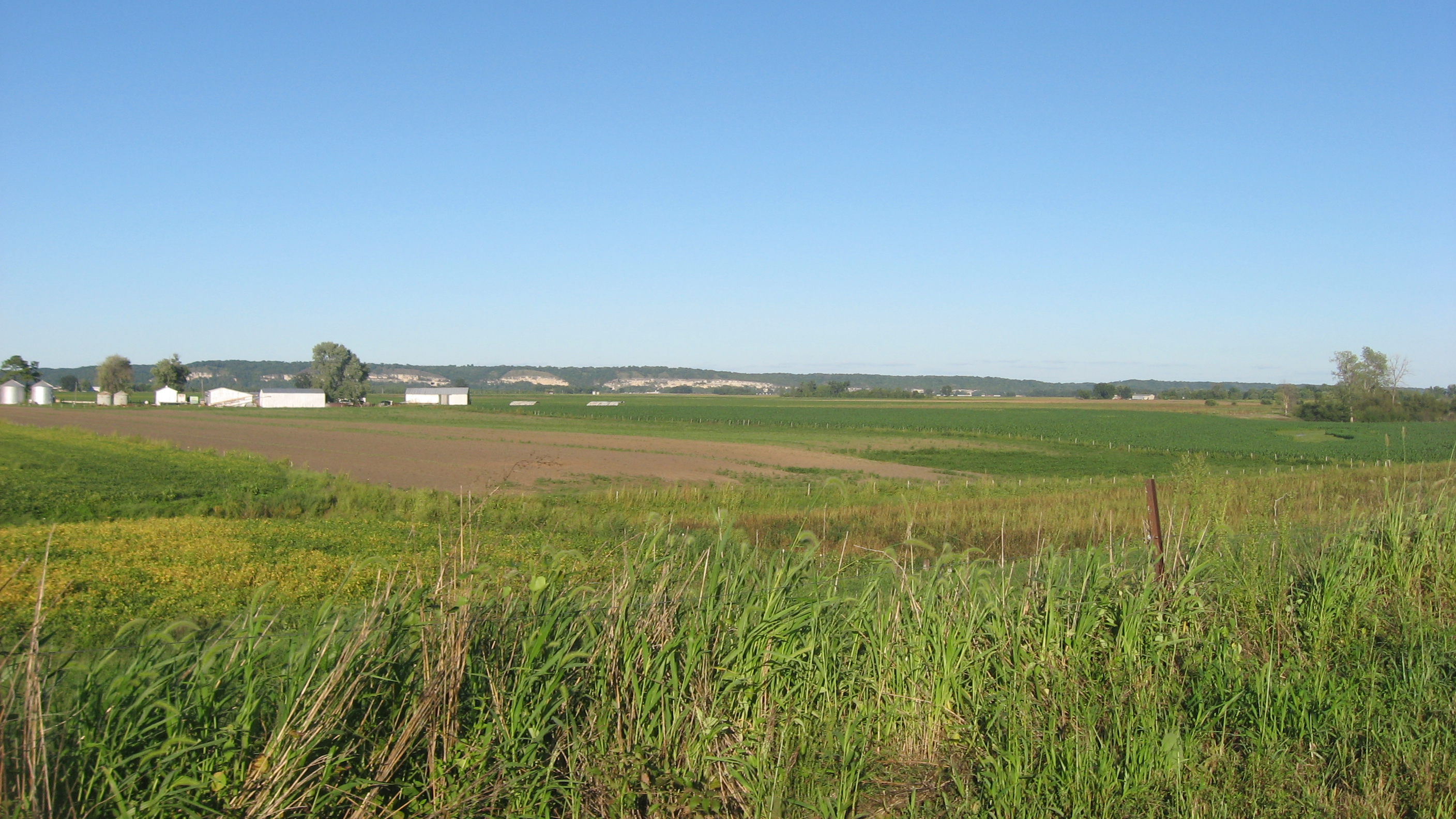 Overview of fields at the Kolmer Site, an important archaeological site located in the American Bottom west of Fort de Chartres in the western extreme of Prairie du Rocher Precinct, Randolph County, Illinois, United States. The site is listed on the National Register of Historic Places, and it is part of a Register-listed historic district, the French Colonial Historic District. Picture is taken from the road atop the Mississippi River levee.